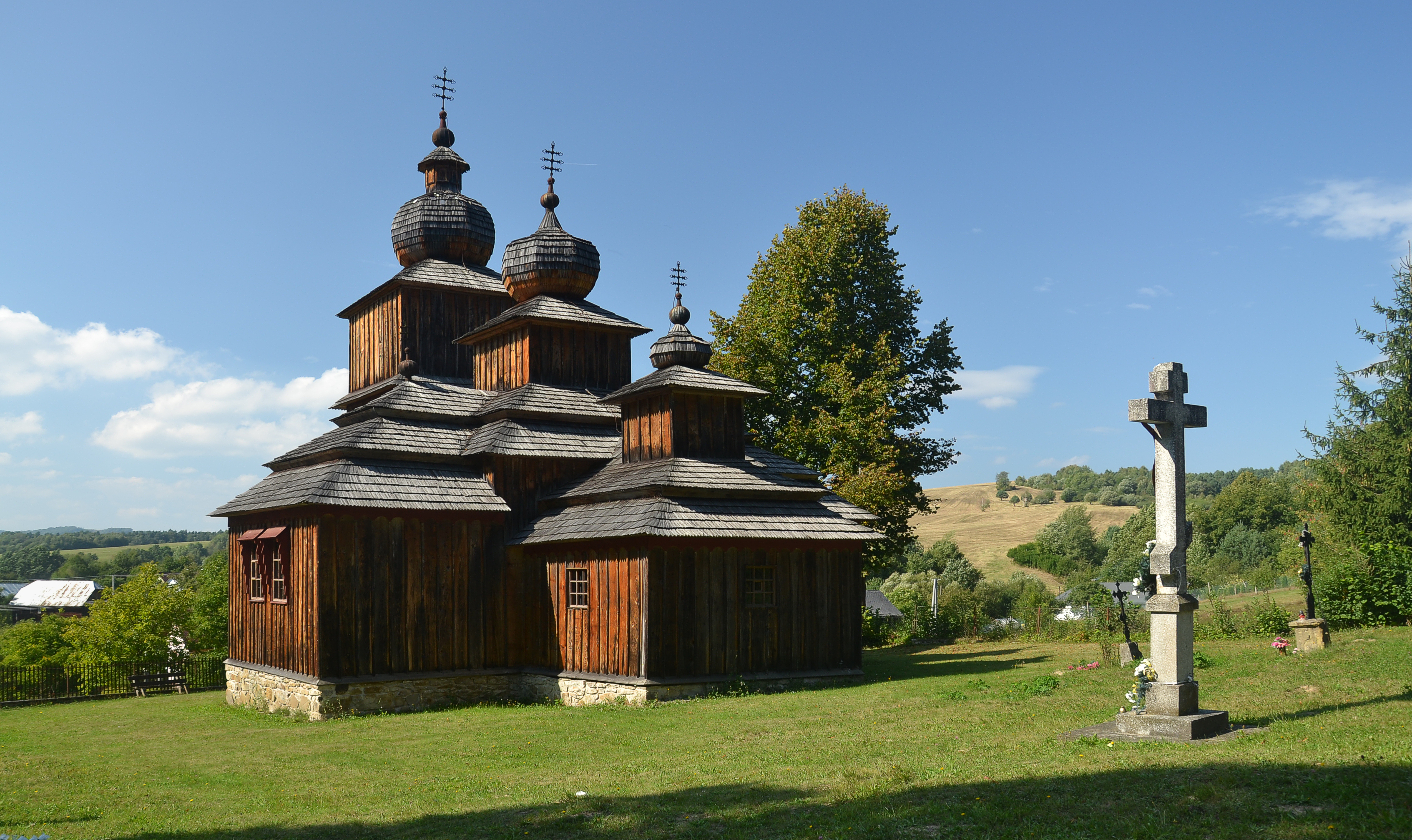 Dobroslava (Доброслава, Dobroszló), Slovakia - Temple of St Paraskeva